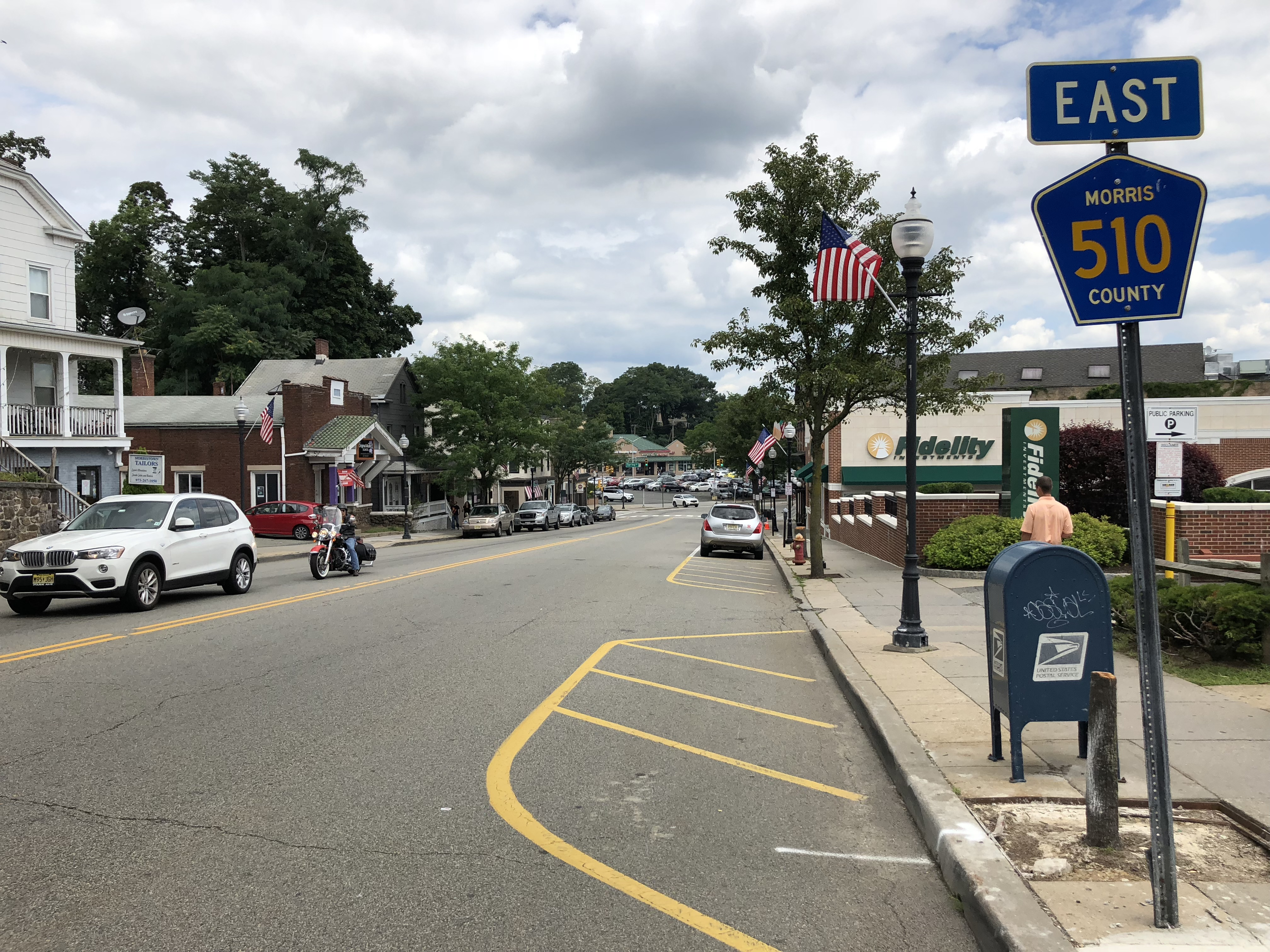 View east along Morris County Route 510 (Morris Street) just east of U.S. Route 202 (Park Place) in Morristown, Morris County, New Jersey